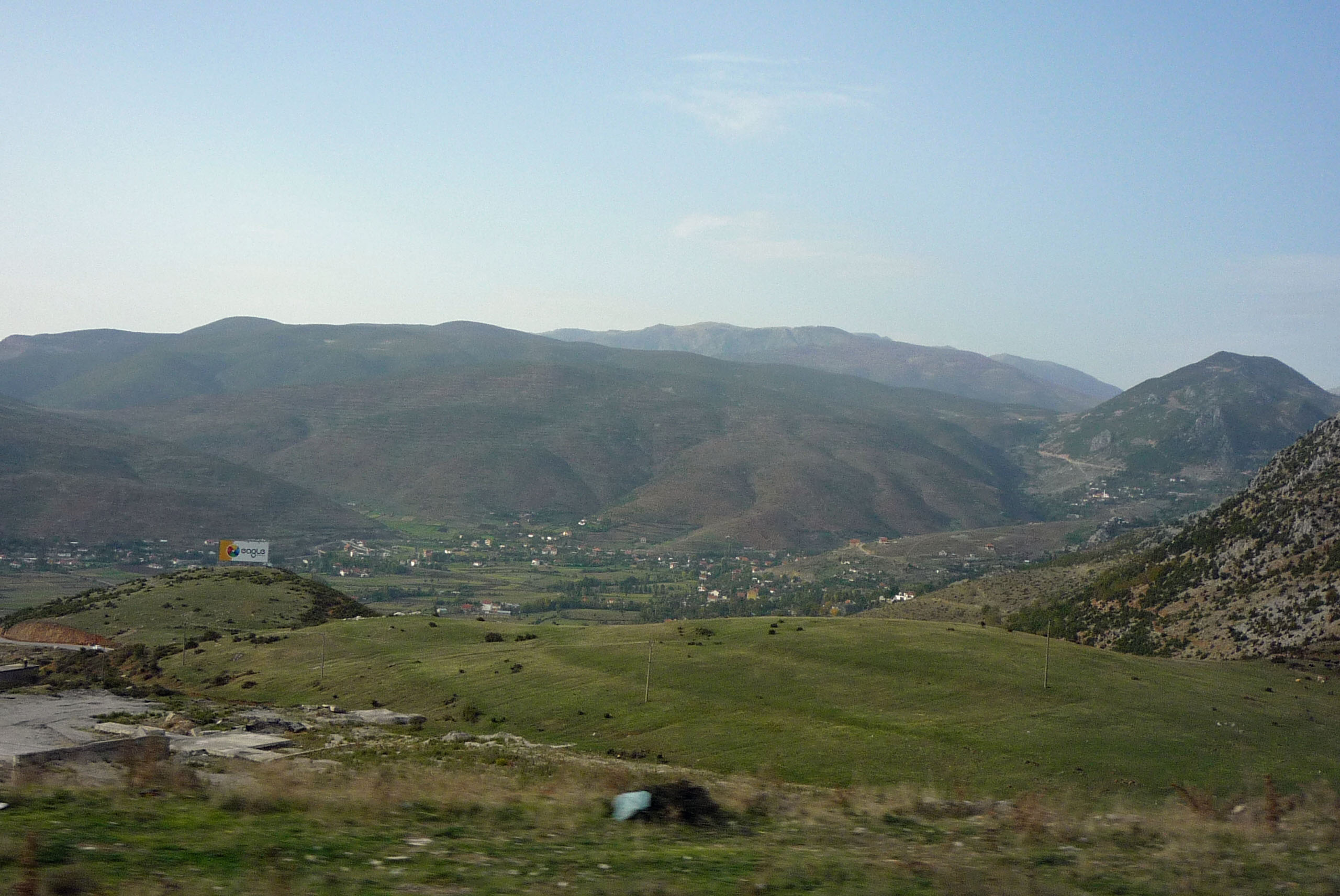 Moutains very close to the Albanian-Mac